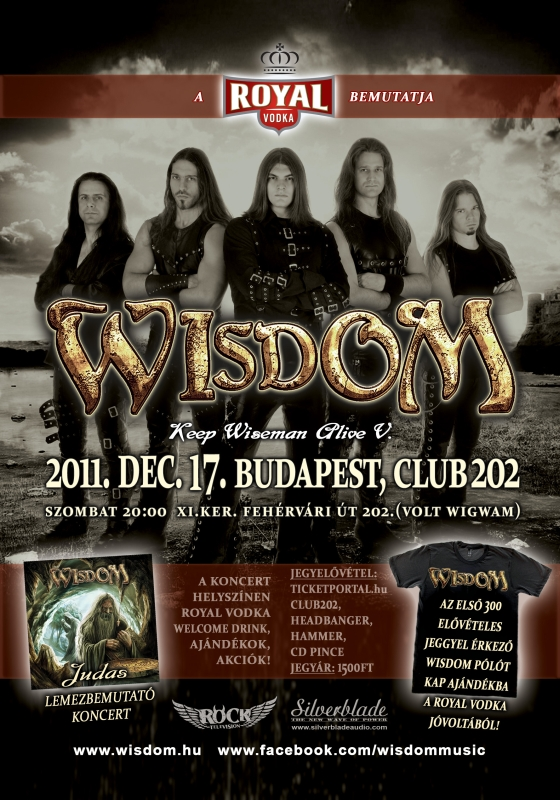 This flyer was made for the Keep Wiseman Alive V show in 2011.